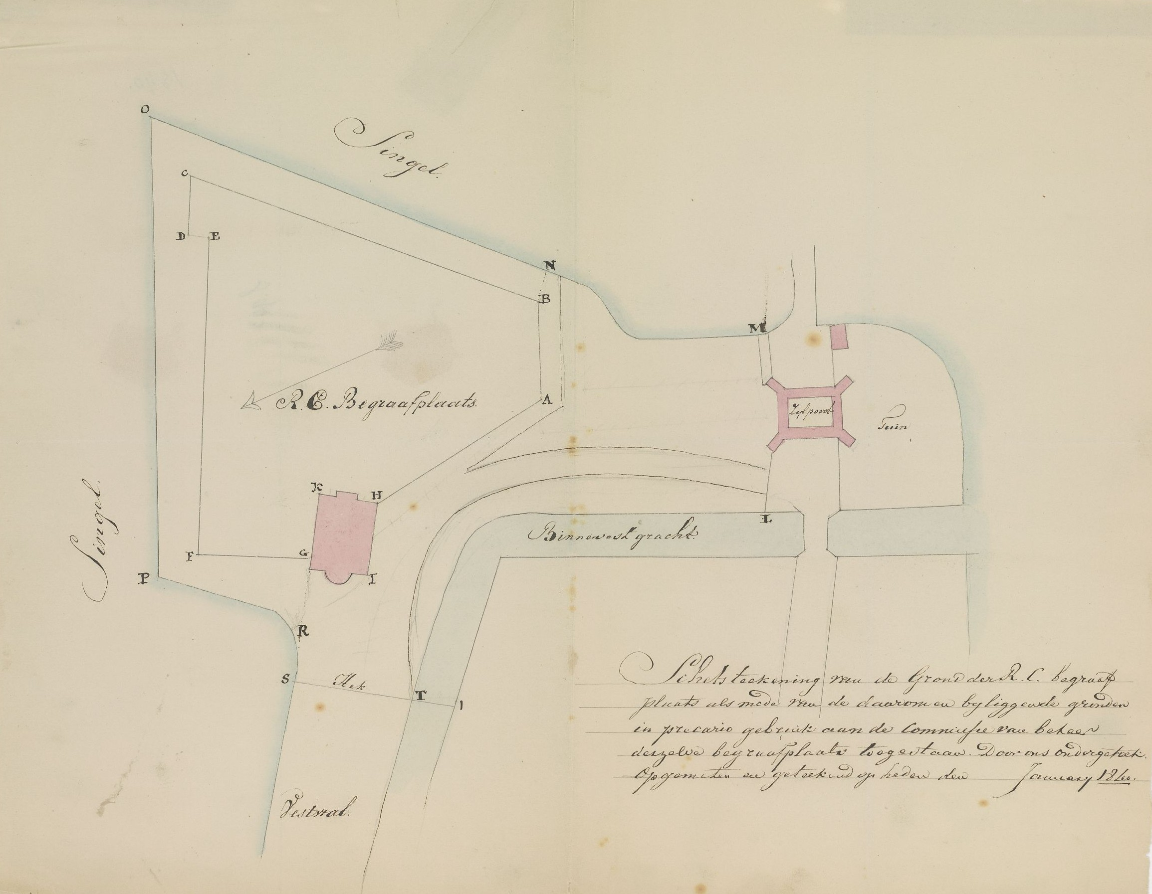 Sketchy map of Zijlpoort cemetery drawn by Salomon van der Paauw, the Leiden city architect at that time. Left side is north. The caption reads: Schetsteekening van de grond der R.C. begraafplaats als mede van de daarom en bijliggende gronden in precario gebruik aan de Commissie van beheer derzelven begraafplaats toegestaan. Door ons ondergetek. opgemeten en geteekend op heden den January 1840.